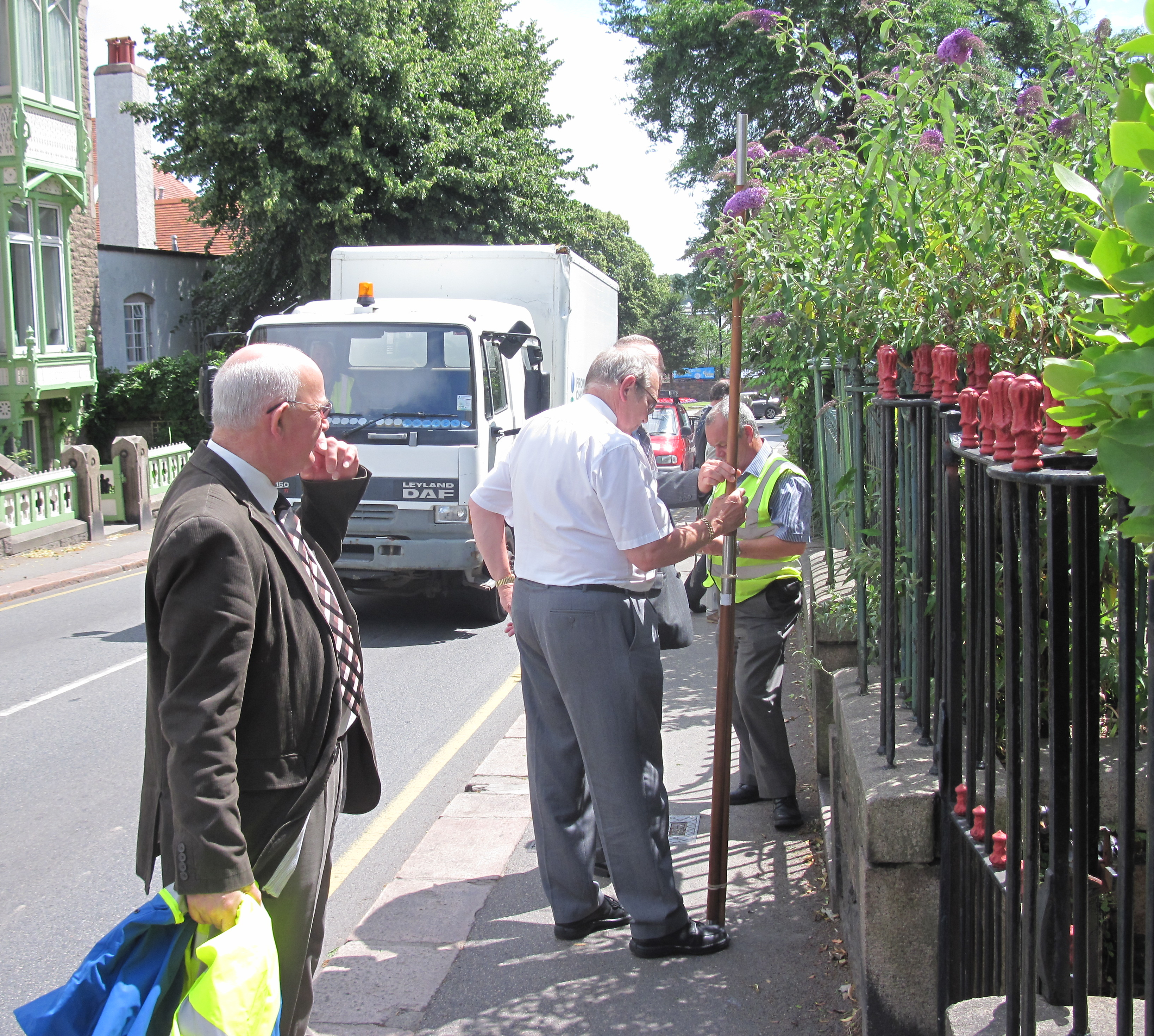 Visite du Branchage, Saint Helier, Jersey, July 2010